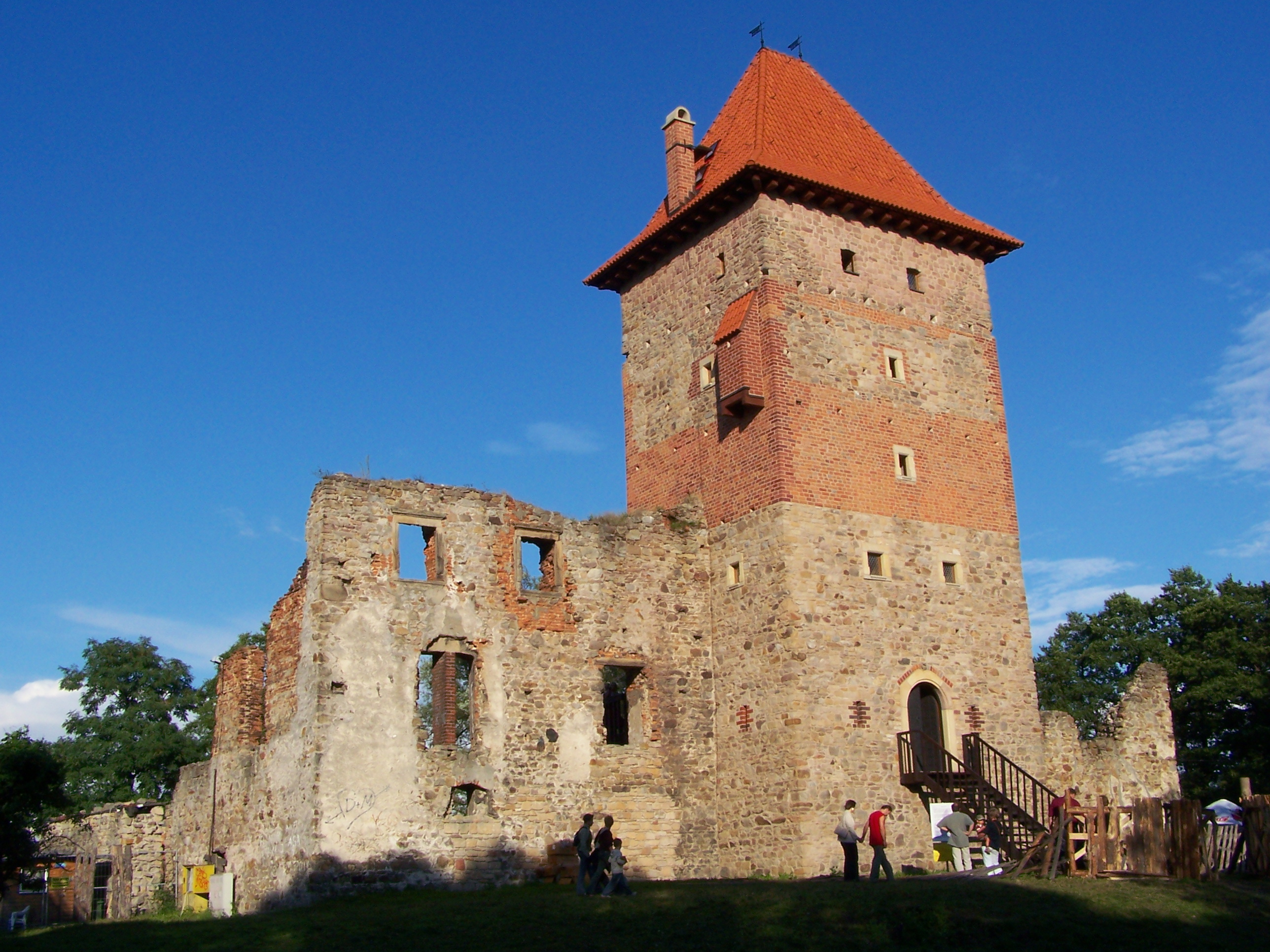 Castle in Chudów (Silesia, Poland).